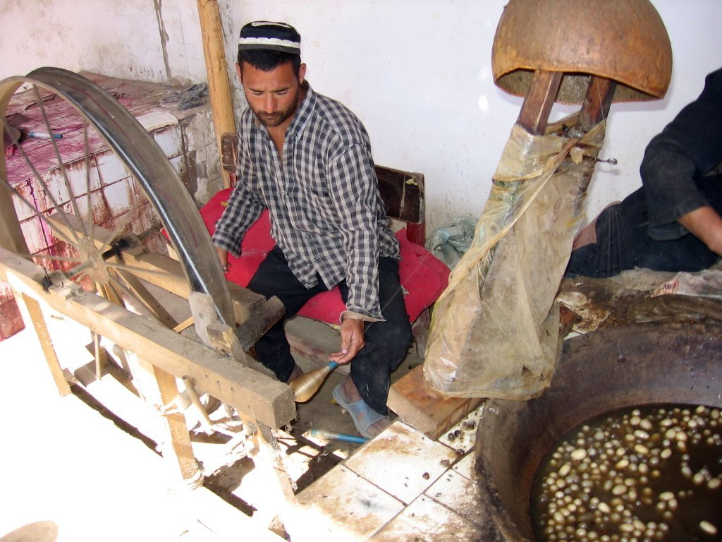 Khotan (Hotan / Hetian) is an oasis city in the Xinjiang Uygur Autonomous Region of the People's Republic of China. Atlas silk factory.